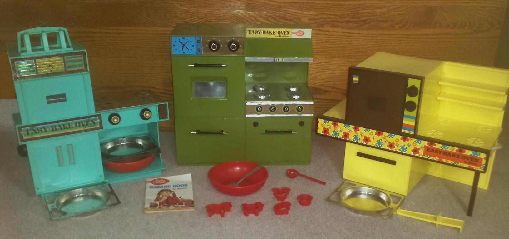 Photo showing the first three versions of Easy-Bake oven. From left: Regular model # 1600 (1963), Premier model # 1500 (1969), and Mod model # 1360 (1971).